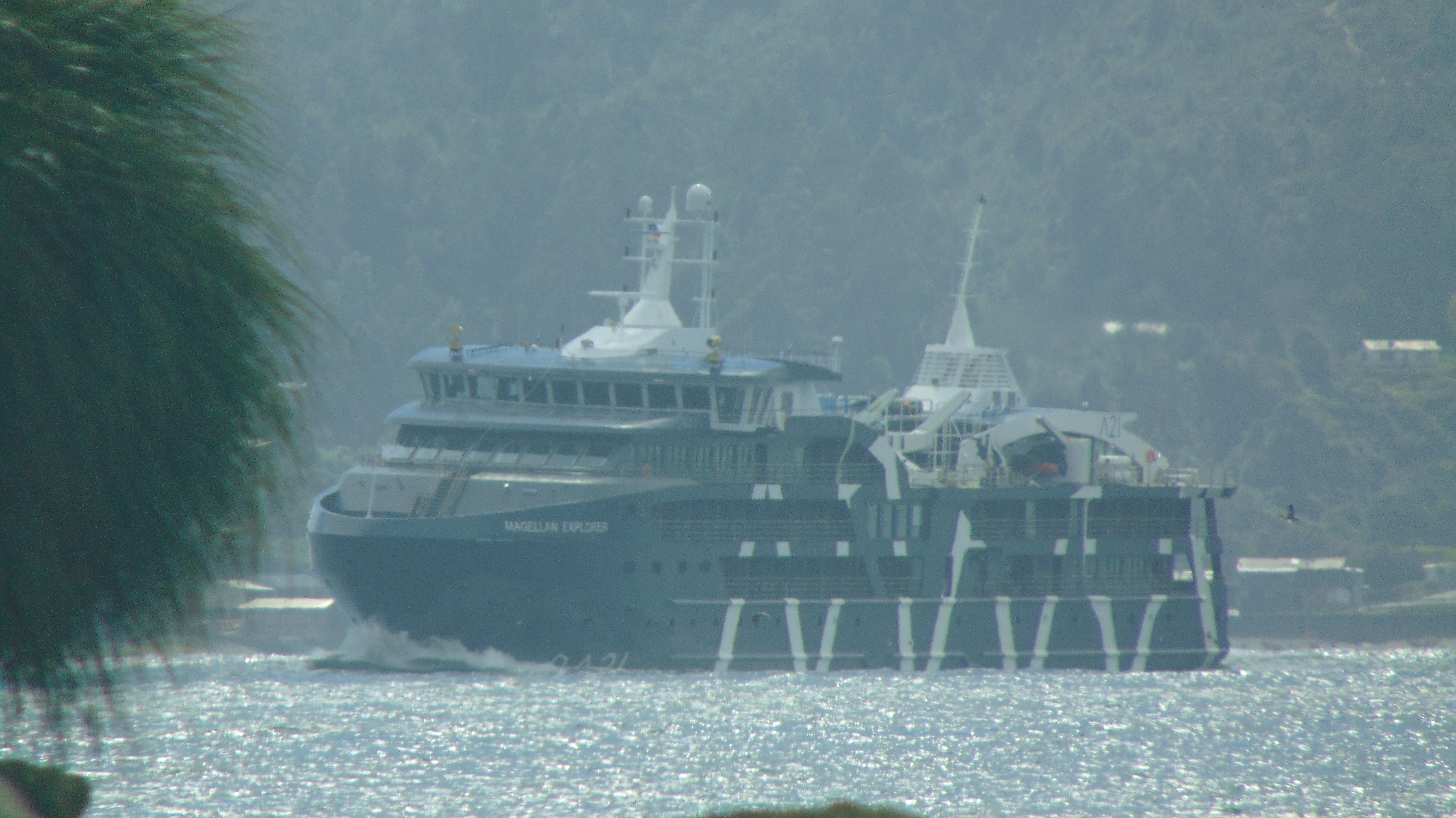 Passenger Ship Magellan Explorer